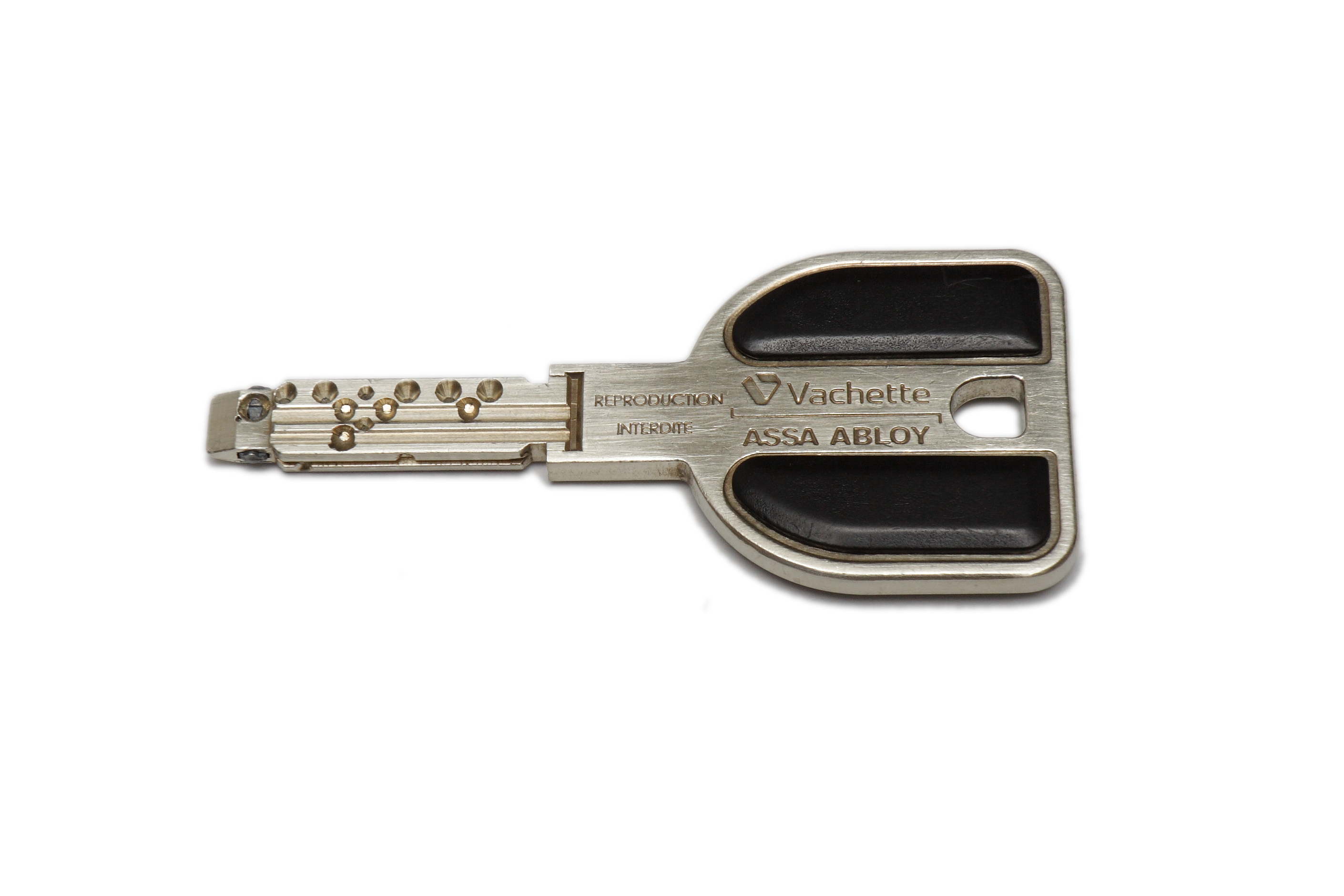 Vachette Radial NT key